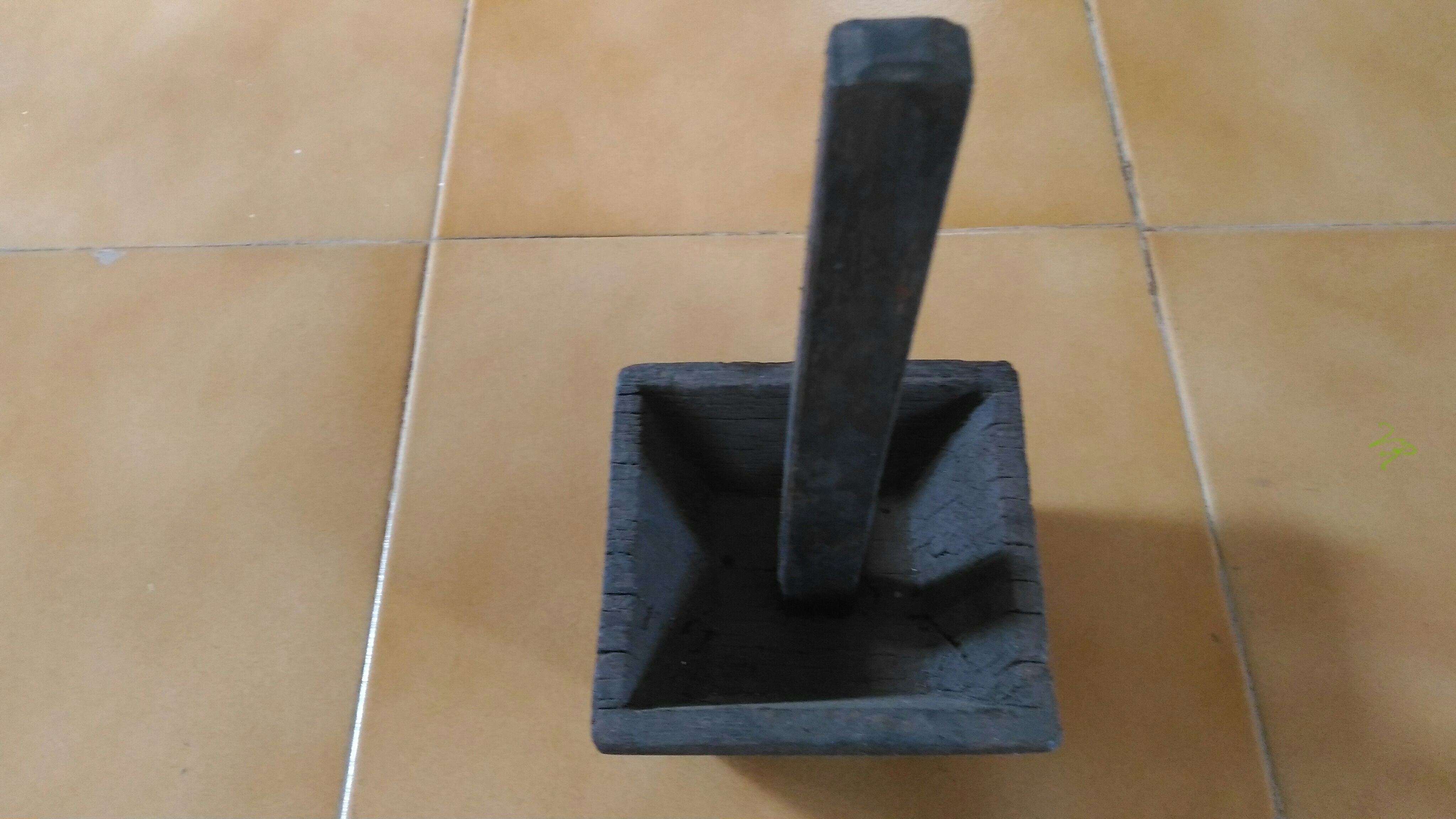 bhasmakottal_rectangle shaped